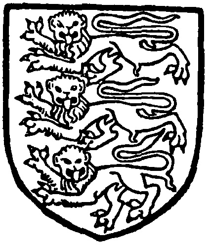 Three leopards shield, Normandy and Channel islands